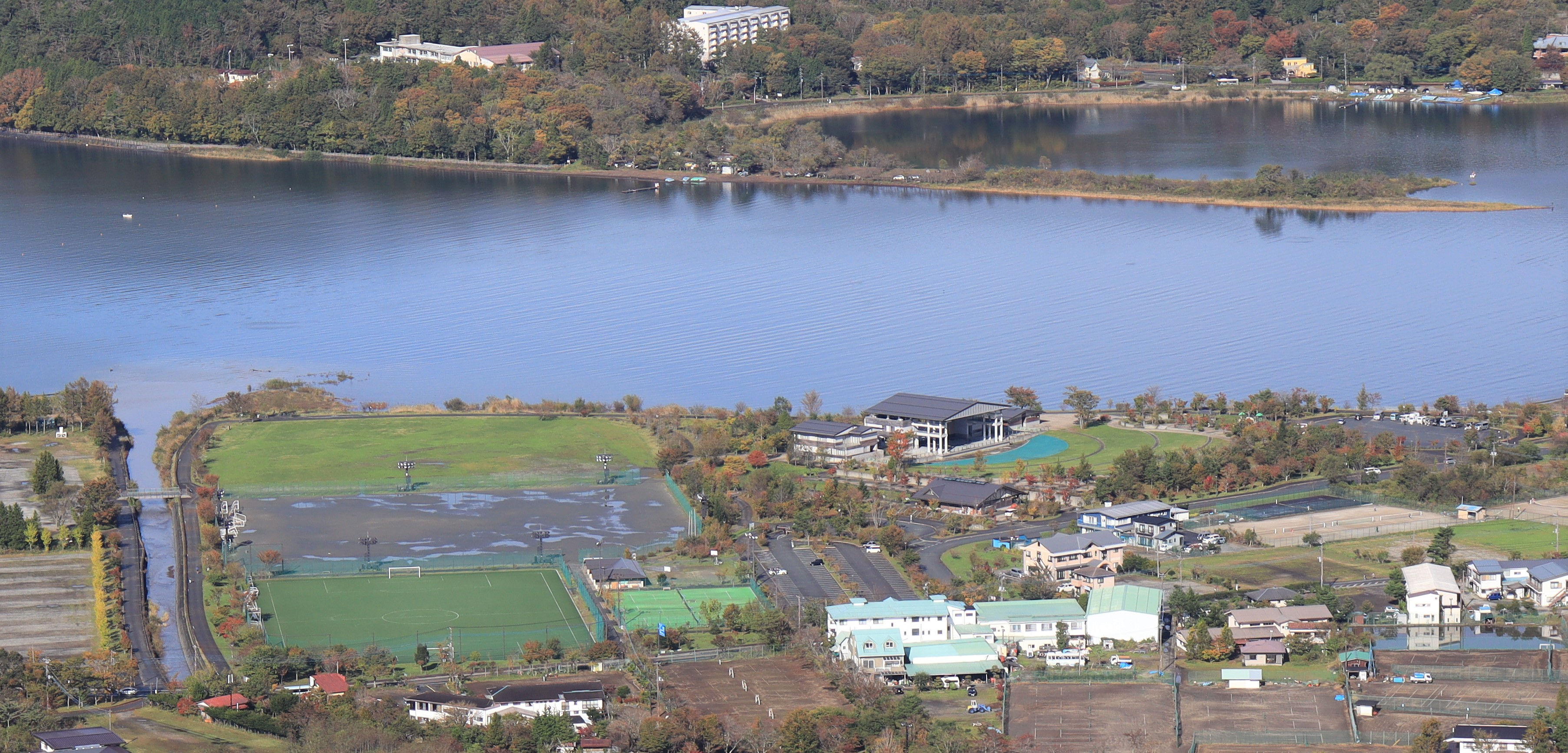 Yamanakako Communication Plaza KIRARA in Yamanakako, Yamanashi Prefecture, Japan.